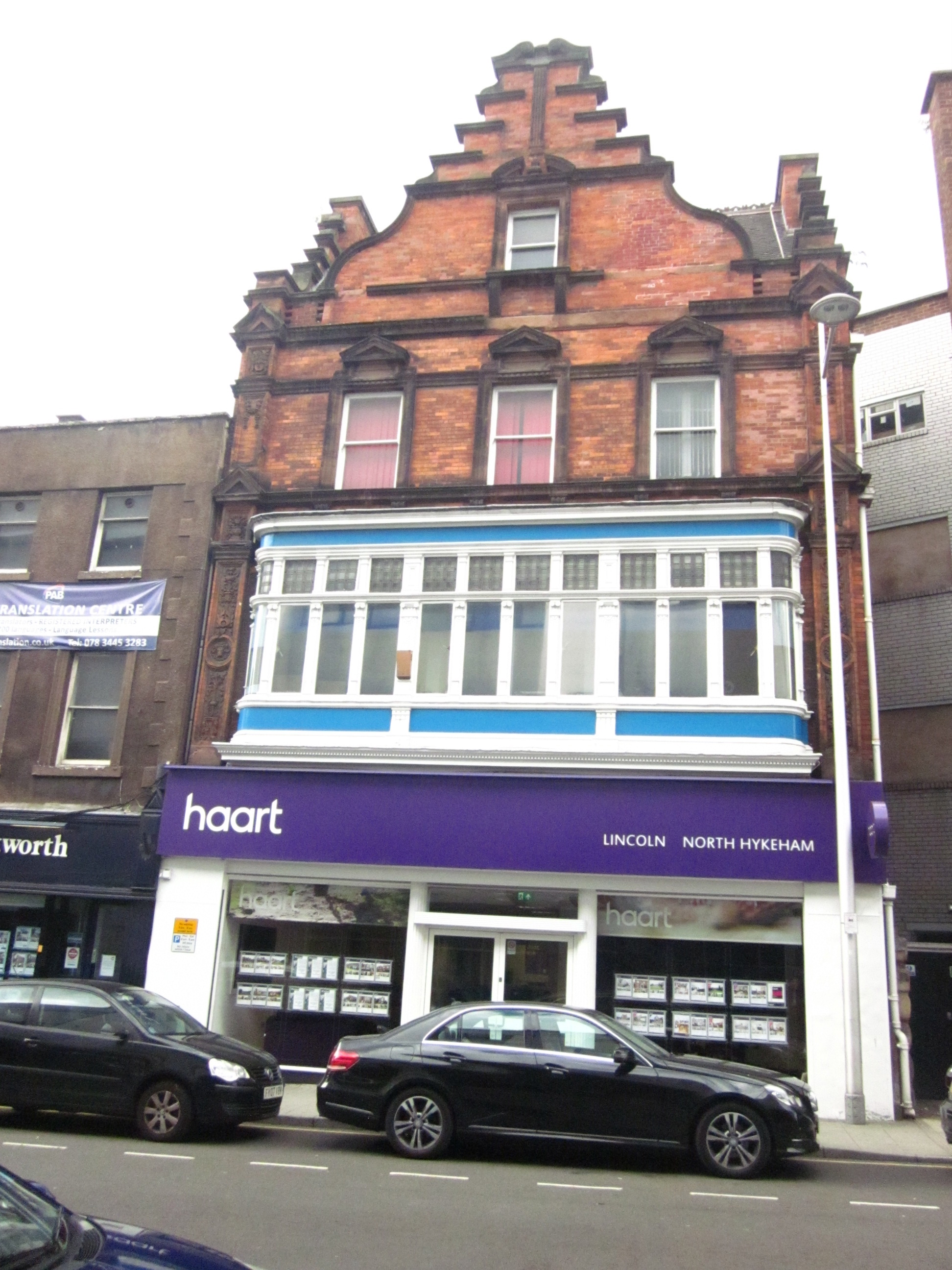 37 Silver Street, Lincoln Terracotta shop facade. Architect William Watkins